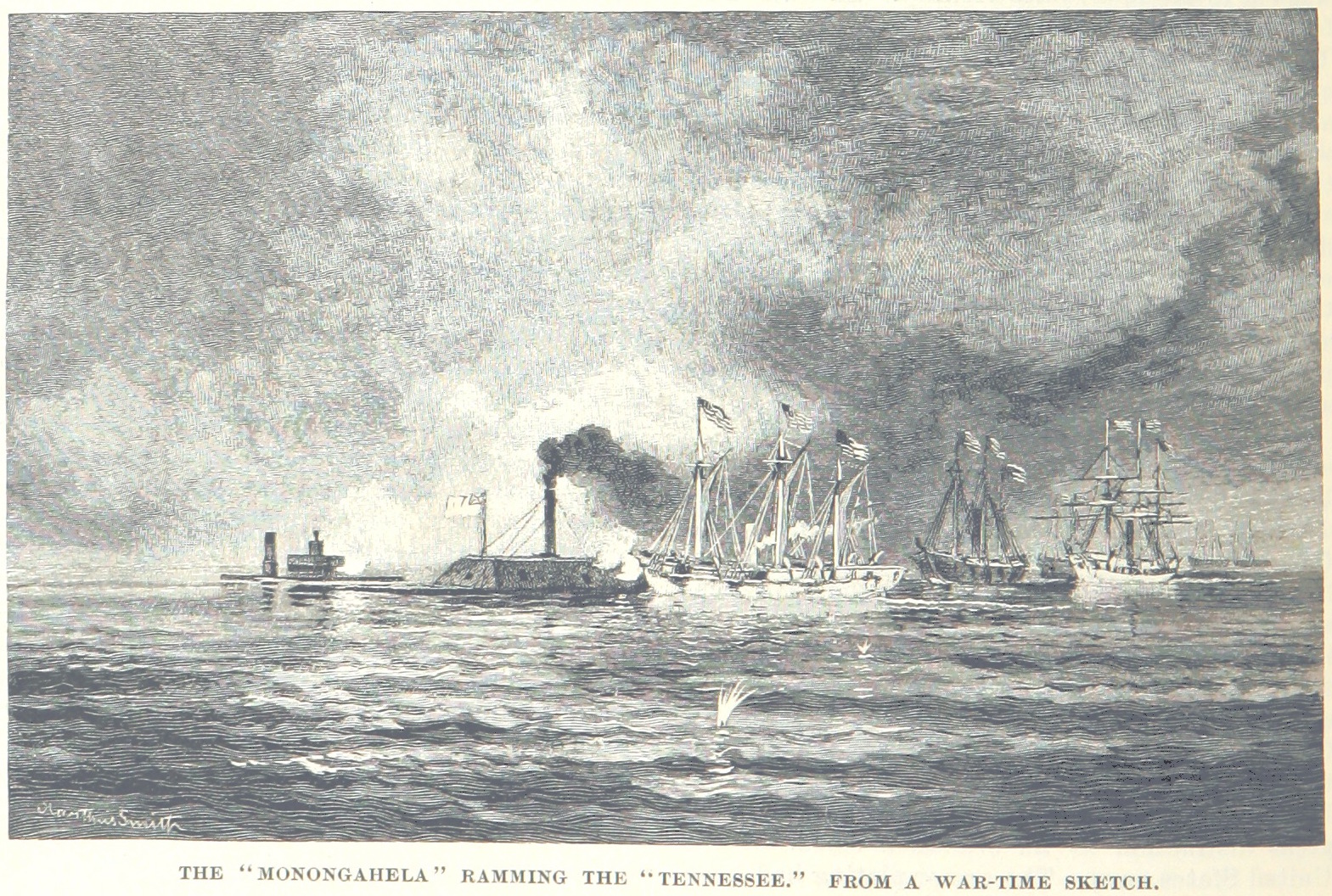 During the Battle of Mobile Bay, USS Monongahela rams CSS Tennessee